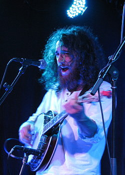 James Ford of the Blind Owl Band playing at The Saint in Asbury Park, NJ, on July 18, 2013.